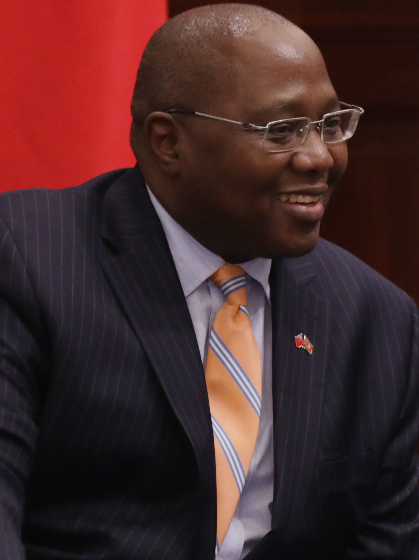 Official Photo by Simon Liu / Office of the President